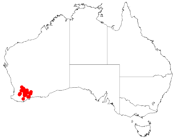 Acacia brachyphylla Occurrence data from Australasia Virtual Herbarium downloaded from on 8 December 2018